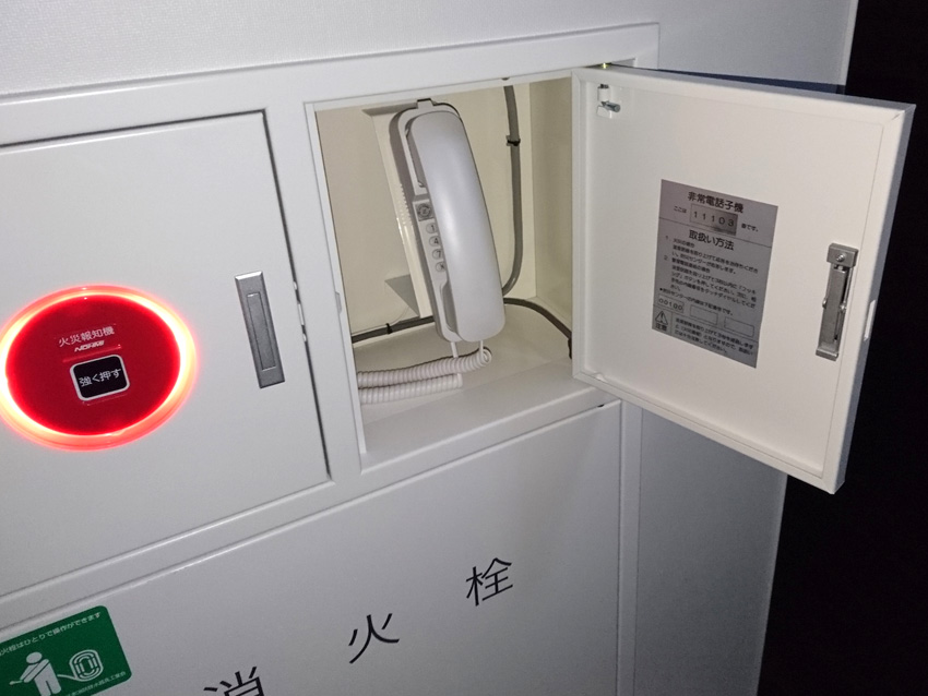 Fire telephone (非常電話) and Fire alarm box (火災報知機) in Japan. Both activate a fire alarm. The fire telephone is usually used in high rise buildings.